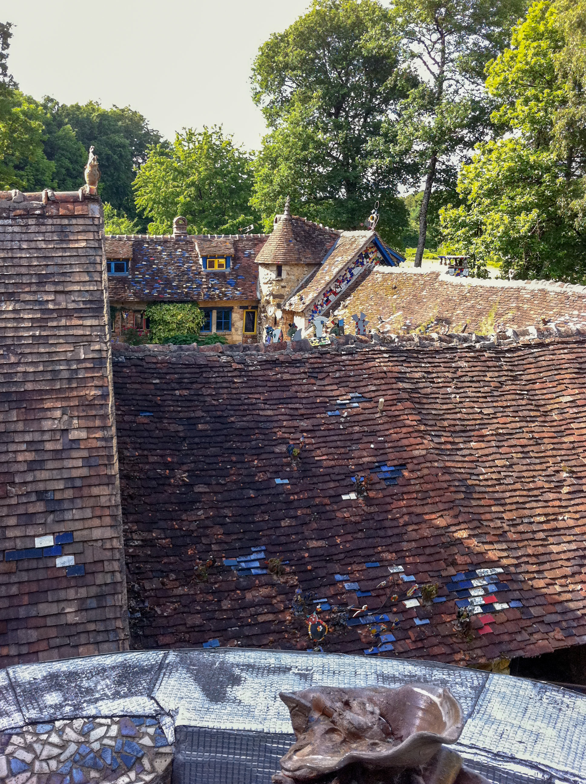 House of Jean Linard since the “Tour Rocard”.